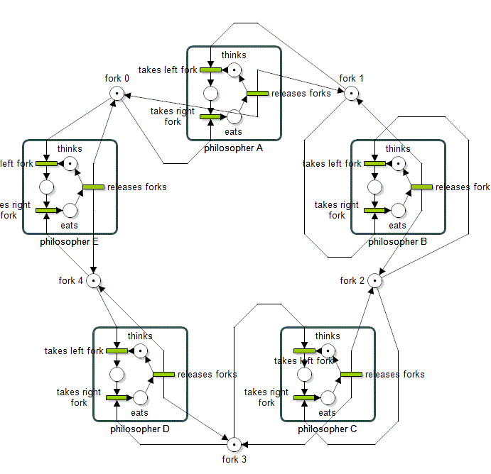 A Petri net to illustrate a naive solution to the dining philosophers problem.